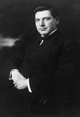 Irving John Gill, architect known for his work in San Diego, California, black and white portrait.